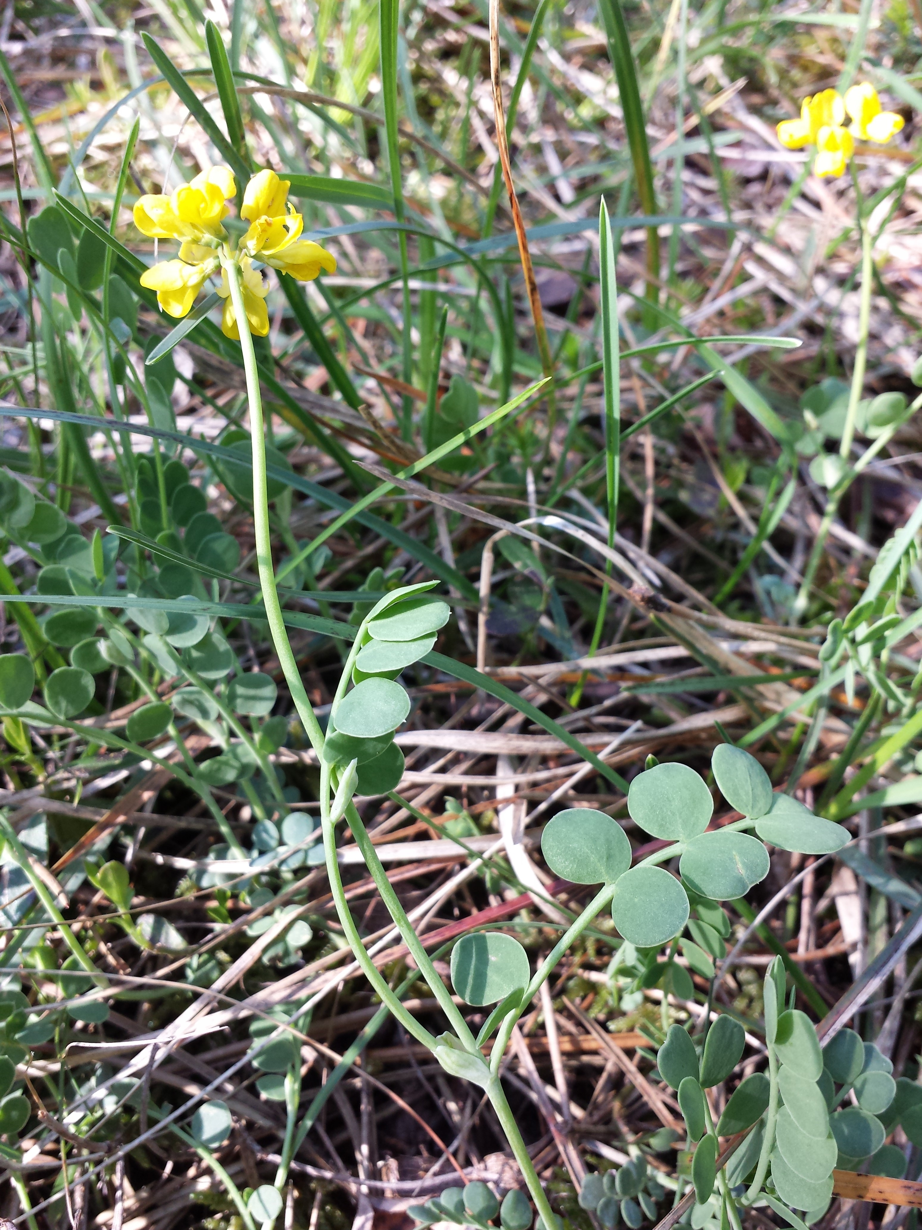 Habitus Taxonym: Coronilla vaginalis ss Fischer et al. EfÖLS 2008 ISBN 978-3-85474-187-9 Location: near Bad Vöslau, district Baden, Lower Austria - ca. 450 m a.s.l. Habitat: wood of Pinus nigra